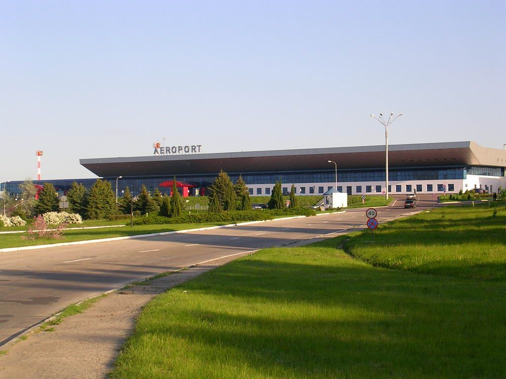 Chisinau International Airport